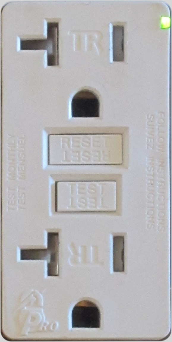 A NEMA 5-20 RA 20 ampere 120 volt tamper resistant ground-fault circuit interrupter Leviton Decora® duplex receptacle, installed over a kitchen counter. Local electrical code requires GFCI within 1 metre of a kitchen sink, and requires tamper-resistant receptacles in residential occupancies. The T-slots for the neutral blade allow either 15 ampere or 20 ampere plugs to be used, though most household devices only have a 15 ampere parallel-blade plug. The green pilot light indicates the outlet is active. The test button and reset button allow the ground fault function to be tested by the resident and reset as required.